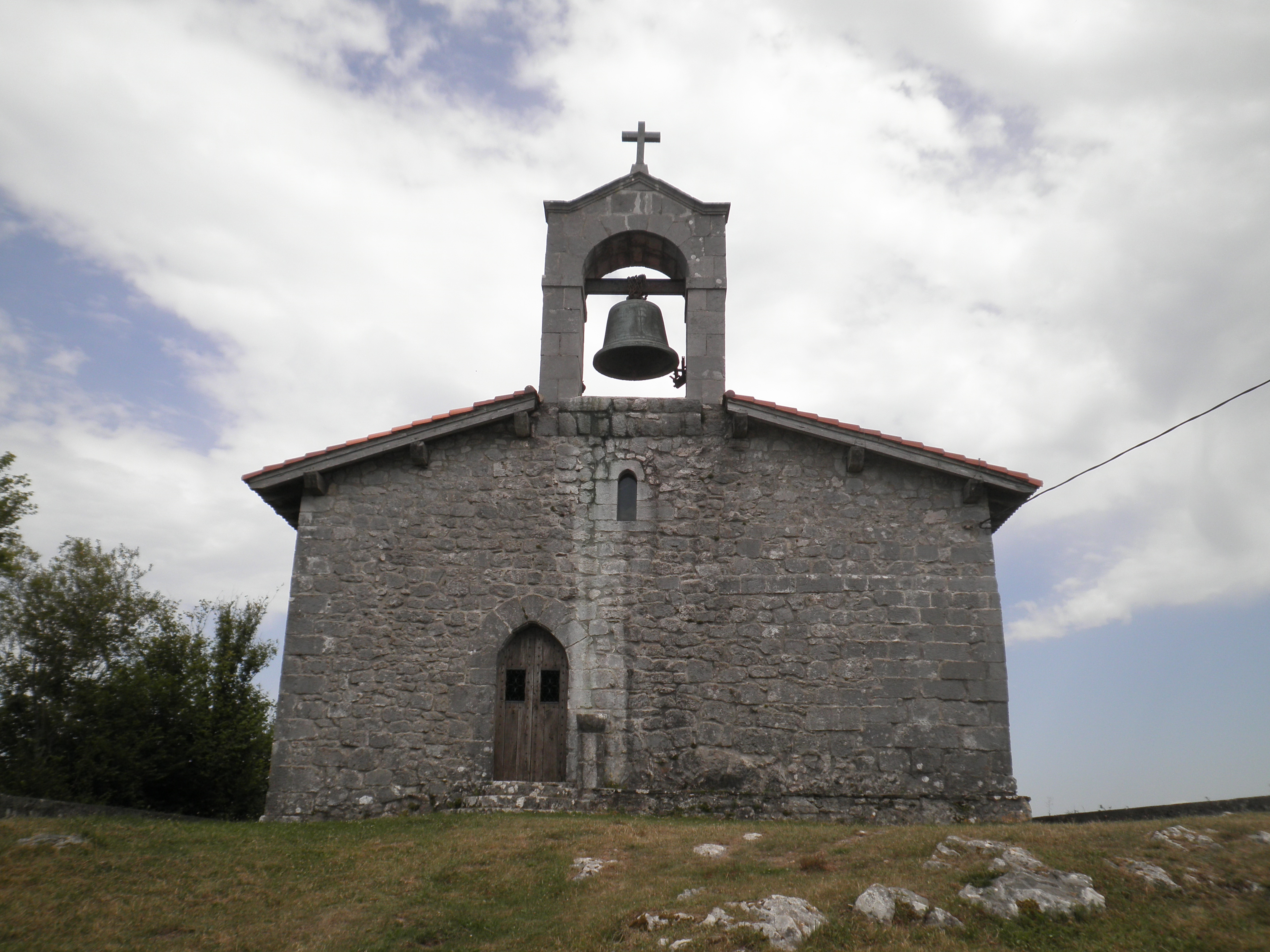 Santa Engrazi hermitage in Zestoa.